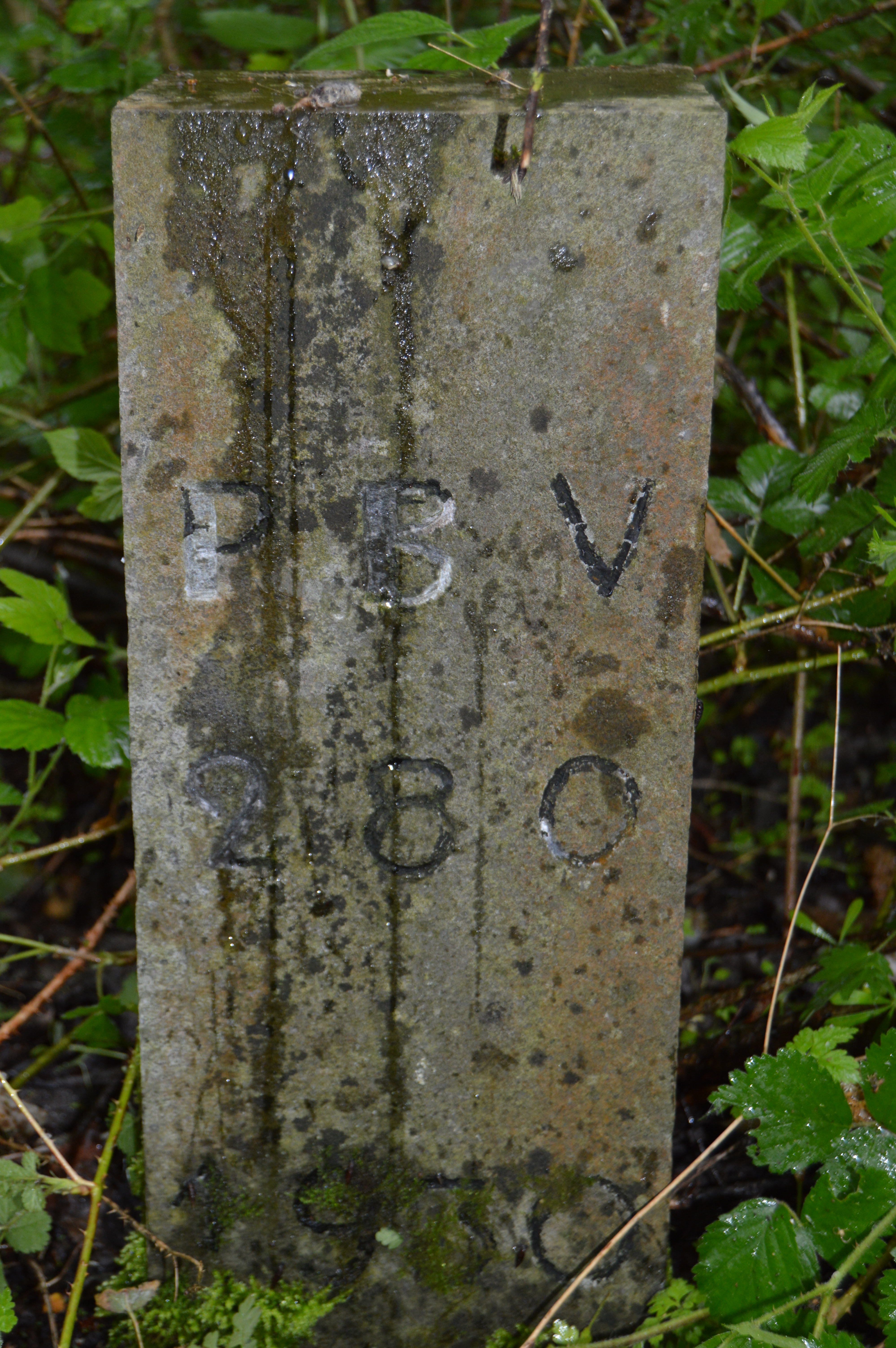 Ancient Belle Vue pit of the Hablosart coal mine in Villers-le-Bouillet, Liège, Belgium